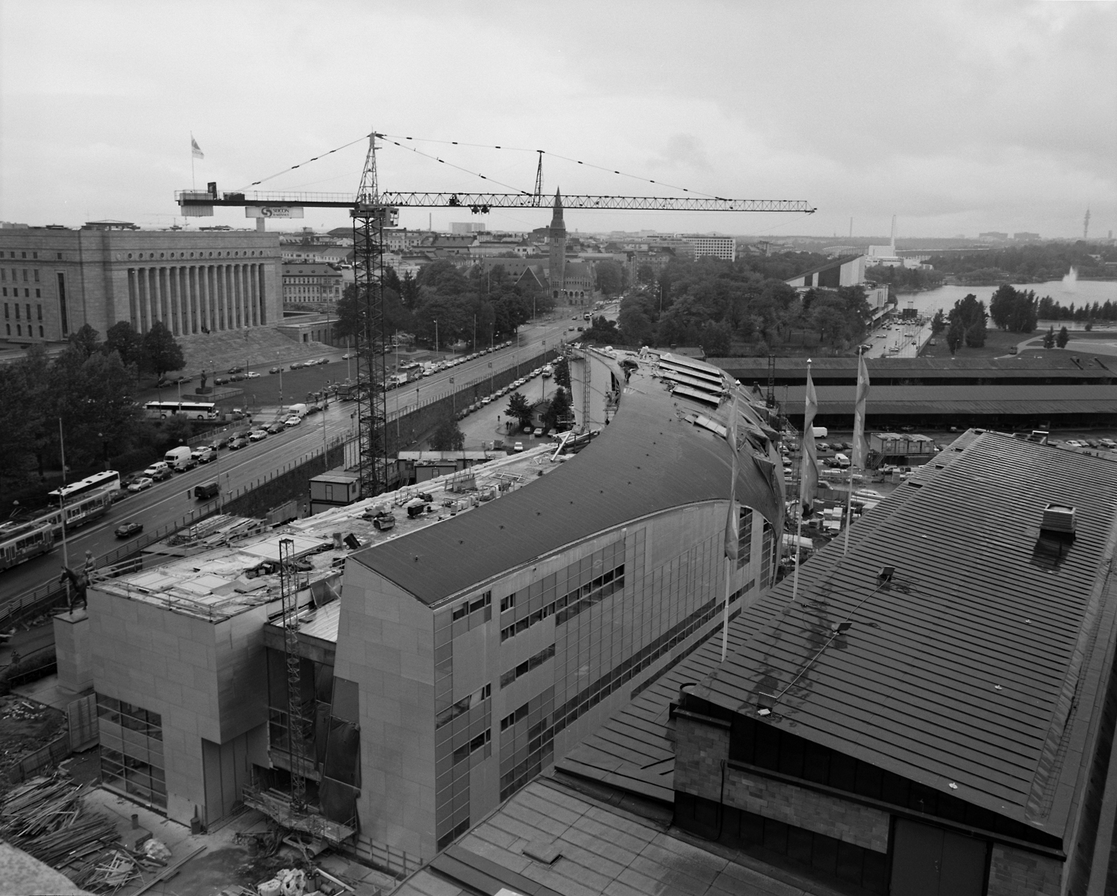 The hand-polished aluminium cladding at the south end of the building was in place in early autumn 1997. Alkusyksystä 1997 Kiasman eteläpääty on saanut käsin hiotun alumiinipintansa. Photo: Finnish National Gallery / Petri Virtanen